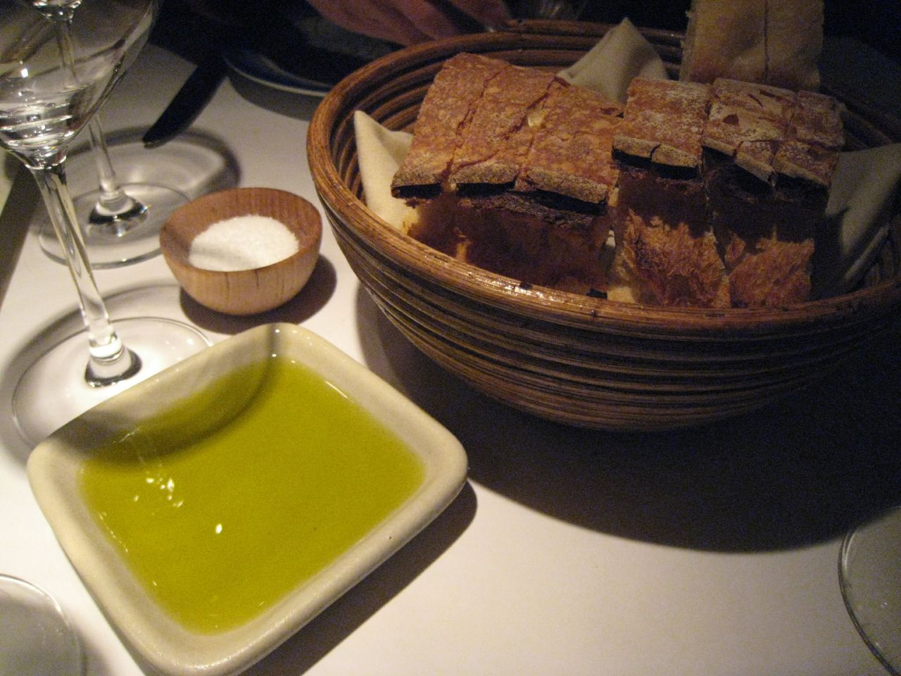 Artisan bread with olive oil and salt